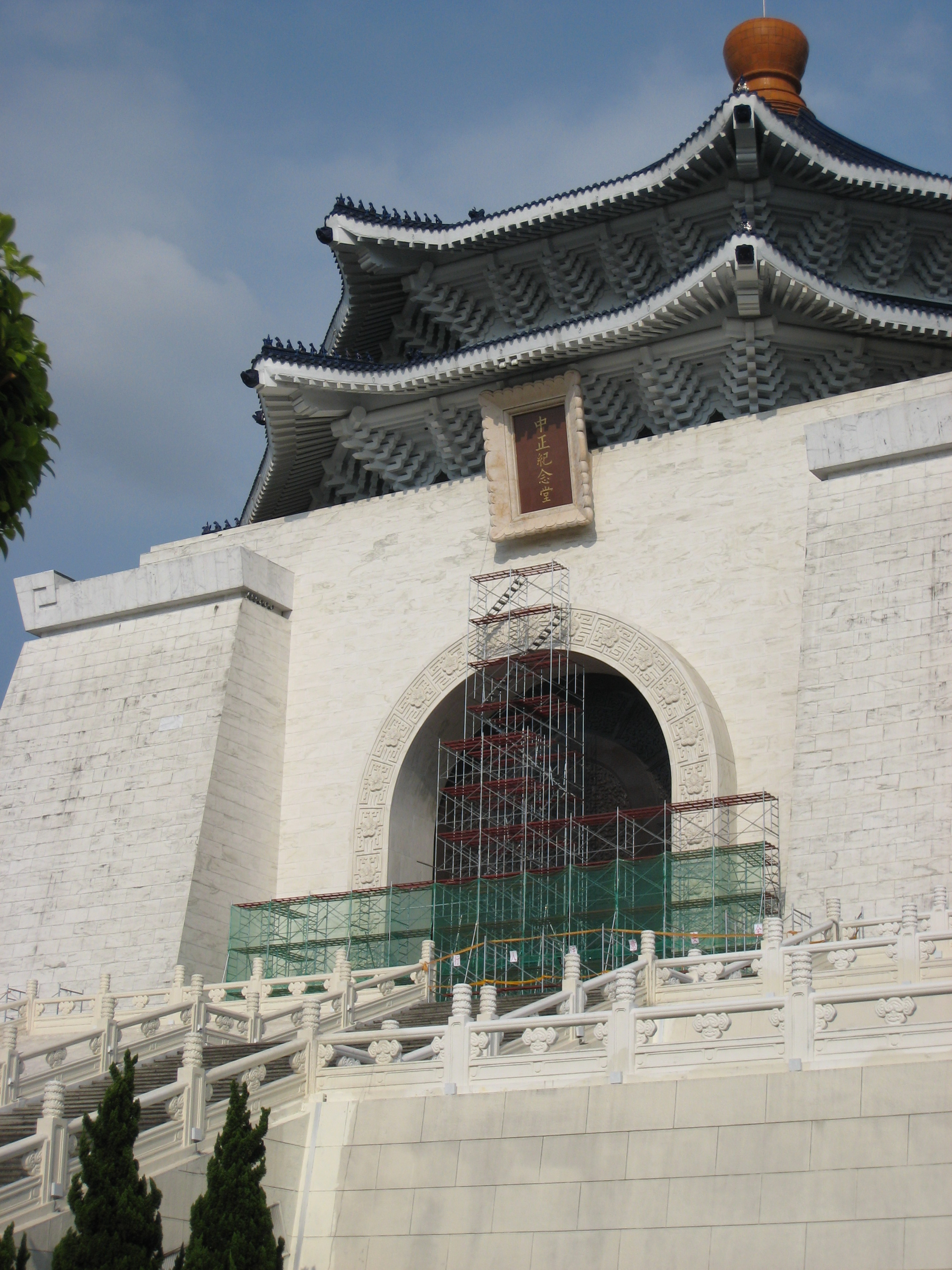 Scaffolding was placed on the Chiang Kai-shek Memorial Hall to cover the placard during the renaming controversy.